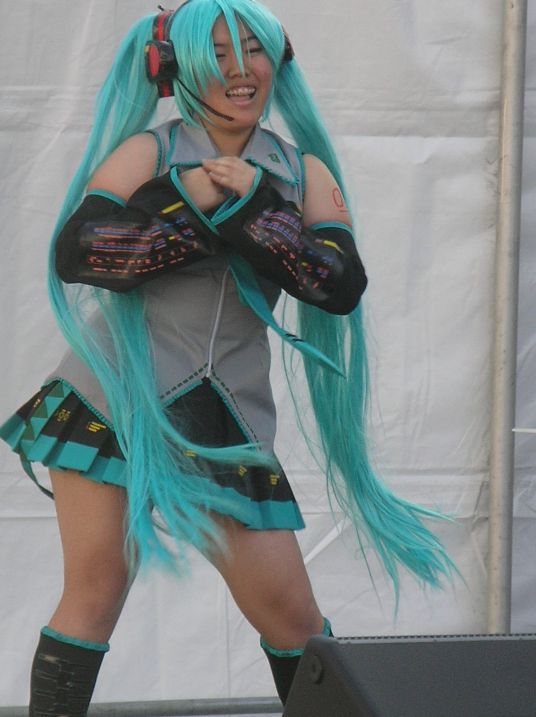 A cosplayer portraying Hatsune Miku from Vocaloid performing during the talent show at the Northern California Cherry Blossom Festival in San Francisco, California.